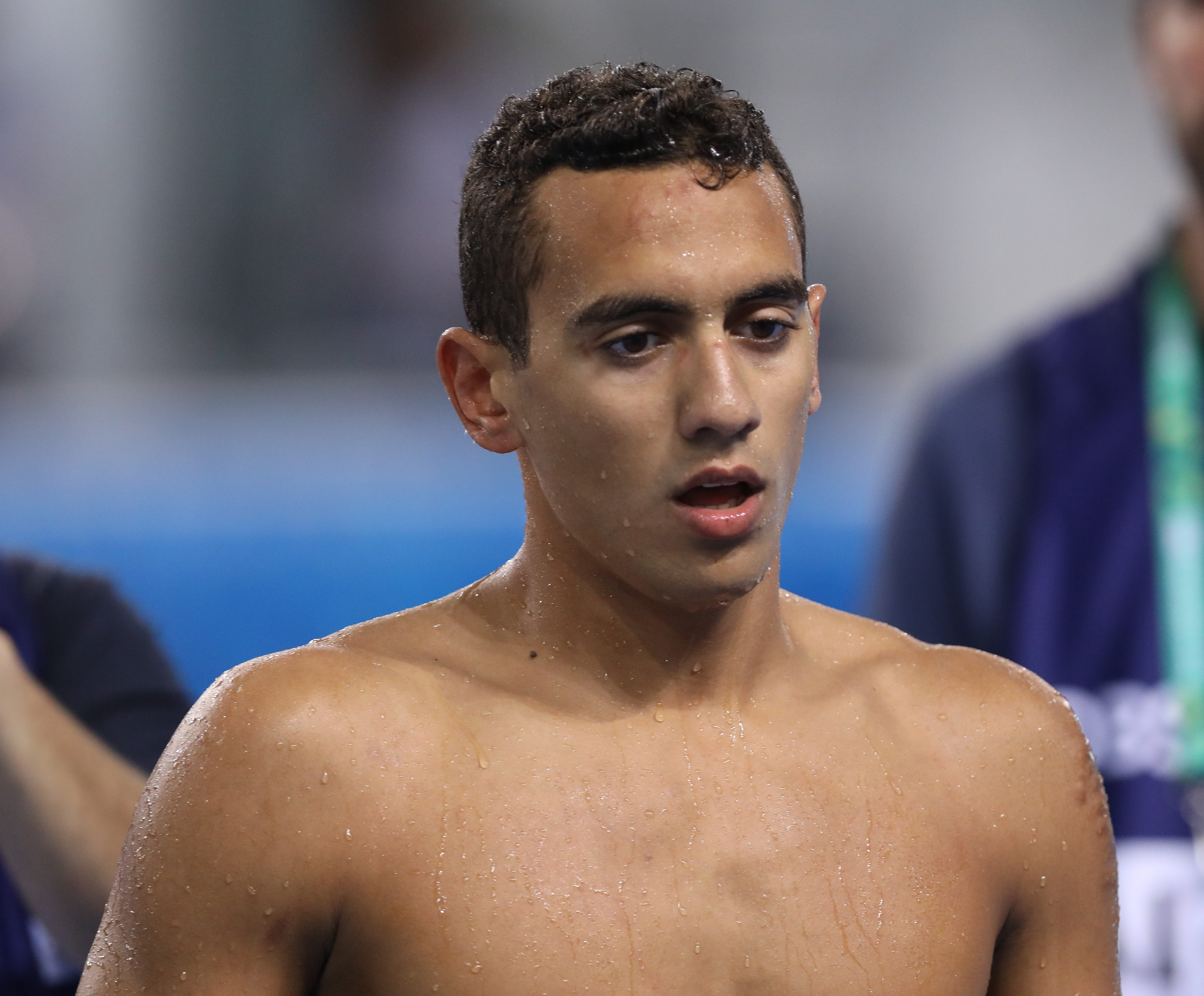 Modern Pentathlon male, Swimming: Heat 3